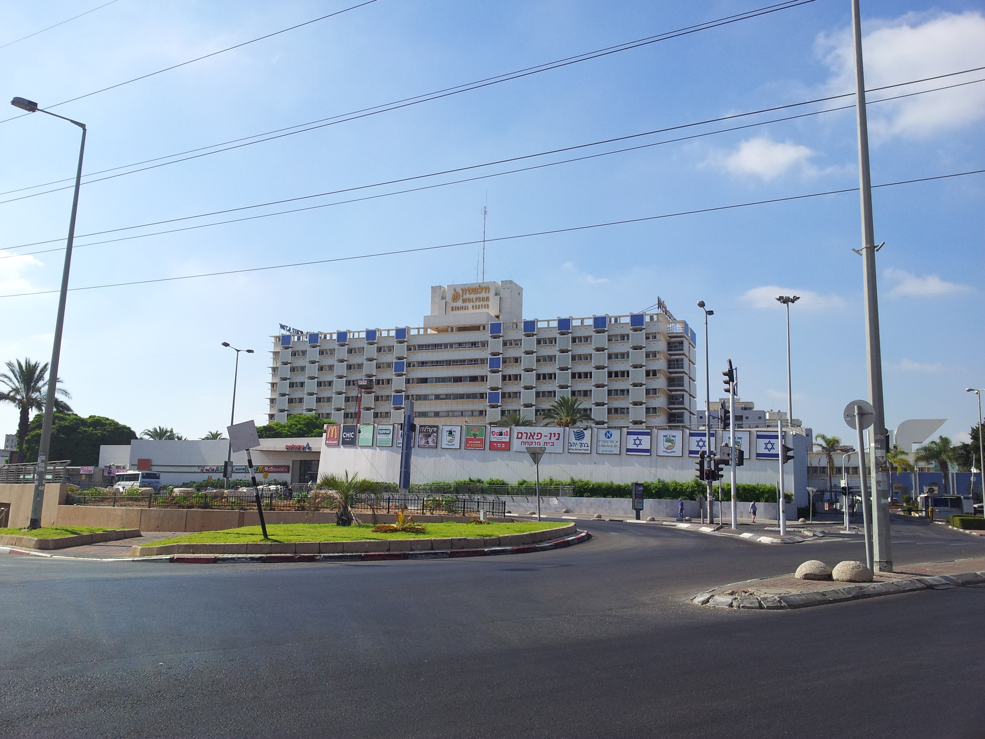 Wolfson Medical Center in Holon, Israel